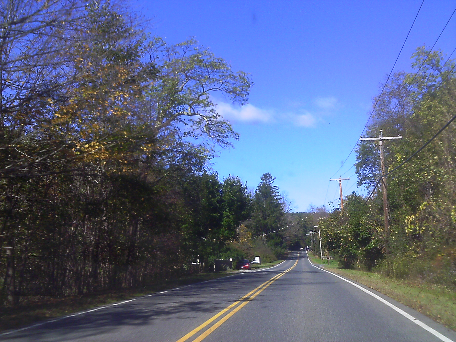 Heading westbound along Route 71 in Alford, Massachusetts. Peaks of the Taconics are visible in the distance.